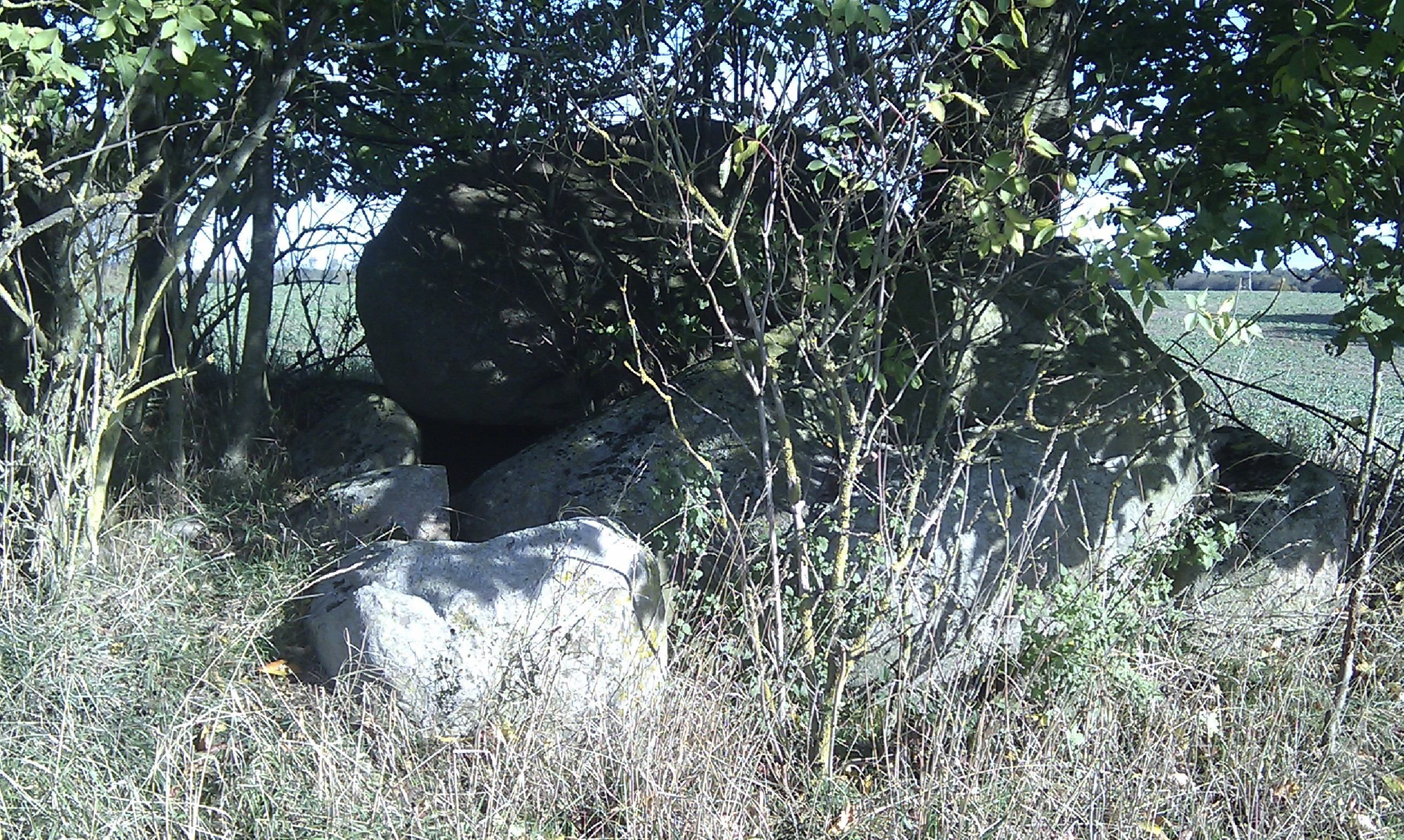 Großsteingrab Sassen 4